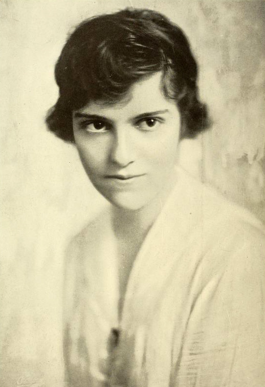 Photograph of Madge Kennedy published in The Photo-Play Journal, April 1917